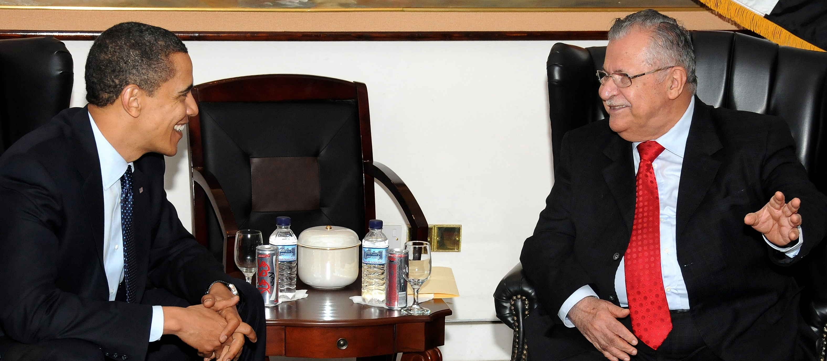 President Barack Obama and Iraqi President Jalal Talabani discuss the success of the U.S.-Iraq security agreement and the growing diplomatic ties between the two countries during a visit to Camp Victory, Iraq, April 7, 2009.